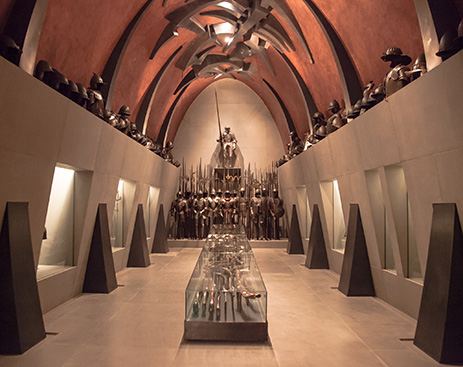 A recent picture of the large weaponry collection of the Museum